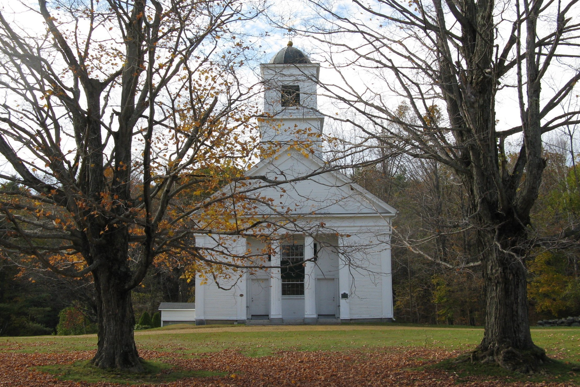 First Congregational Church, Erected 1850, Winchendon Massachusetts